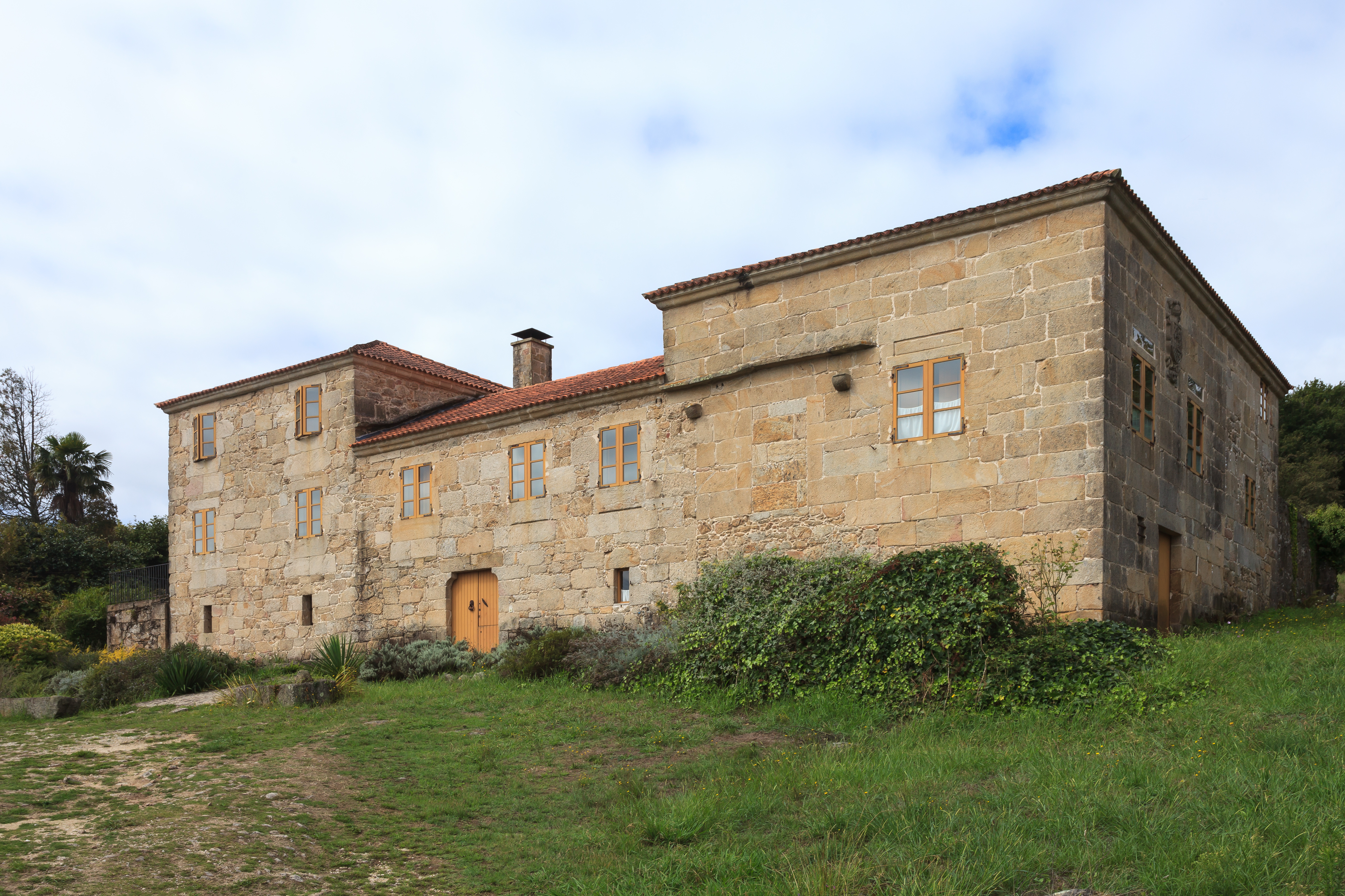 Palace of Hermida. Towers of Lestrobe. Lestrobe, Dodro, Galicia, SpainGalego: Pazo de Hermida.Torres de Lestrobe. Lestrobe, Dodro, Galiza